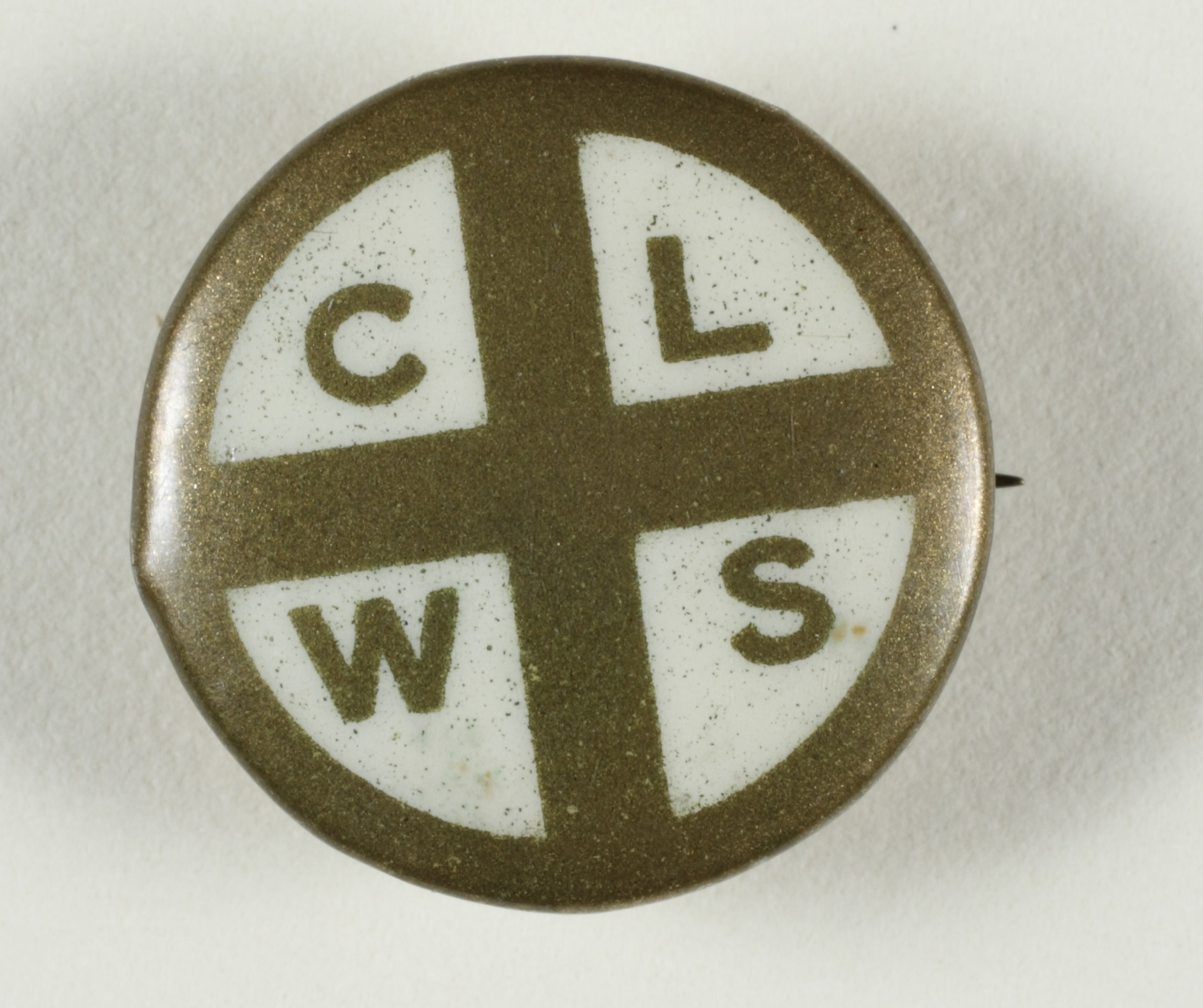 TWL.2004.612.1Badge, paper, plastic, metal, round, paper, produced by the Church League for Women's Suffrage, printed with a gold cross and border, white ground, gold inscription: 'CLWS', paper covered with plastic, over metal base.